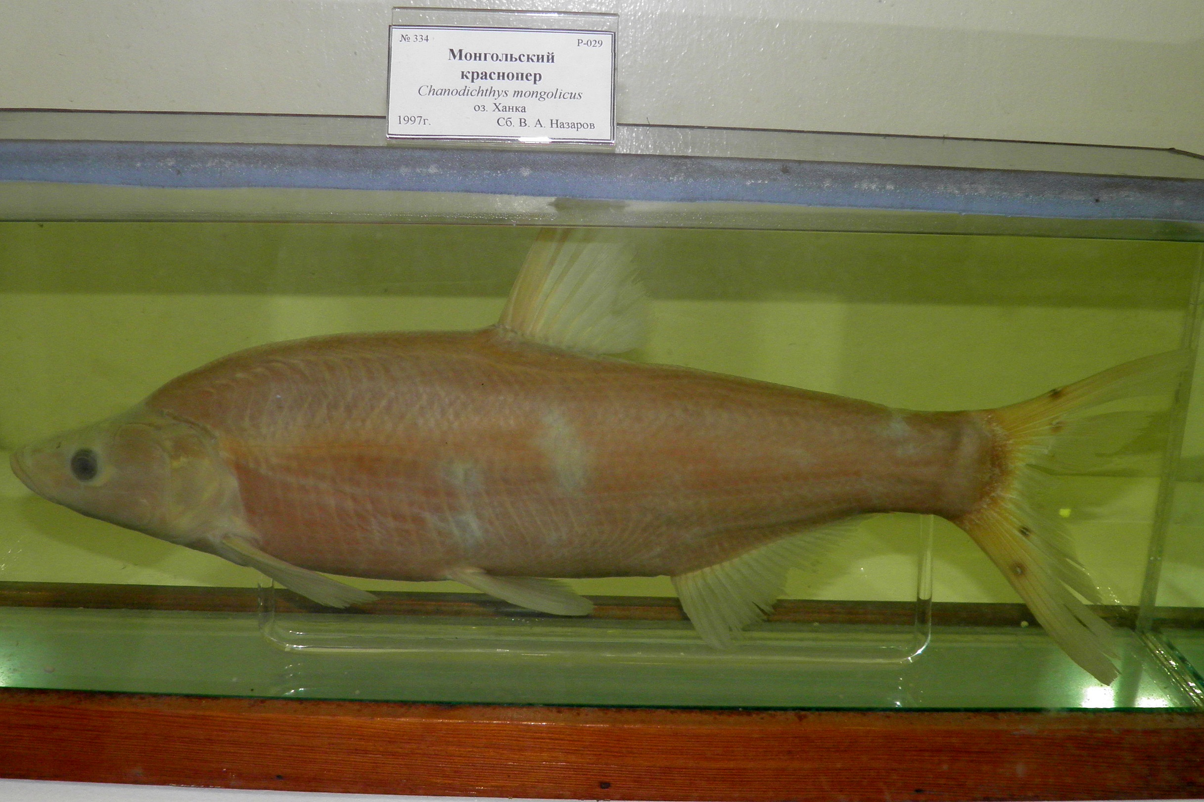 Chanodichthys mongolicus